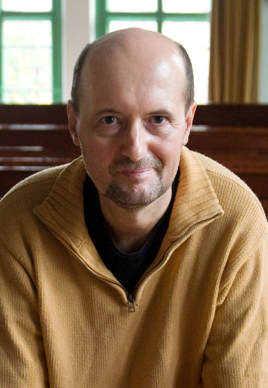 Photograph of Peter Csermely the Hungarian biochemist.